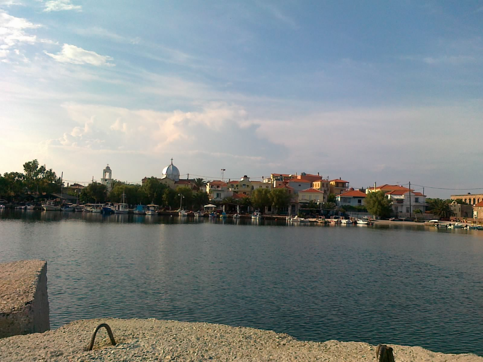 Panayoudha village, Lesvos